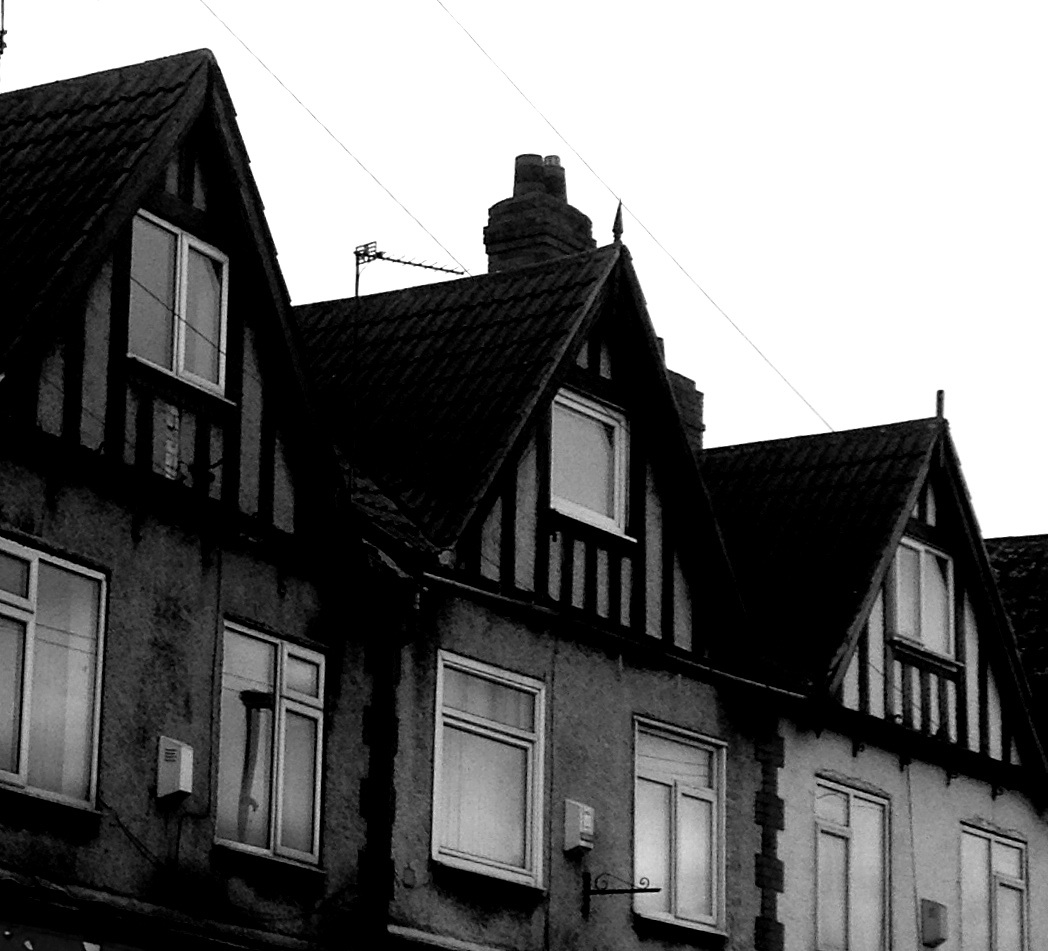 Faux Tudor half time bet frontages to the former shops on Barnsley Road, Moorthorpe.